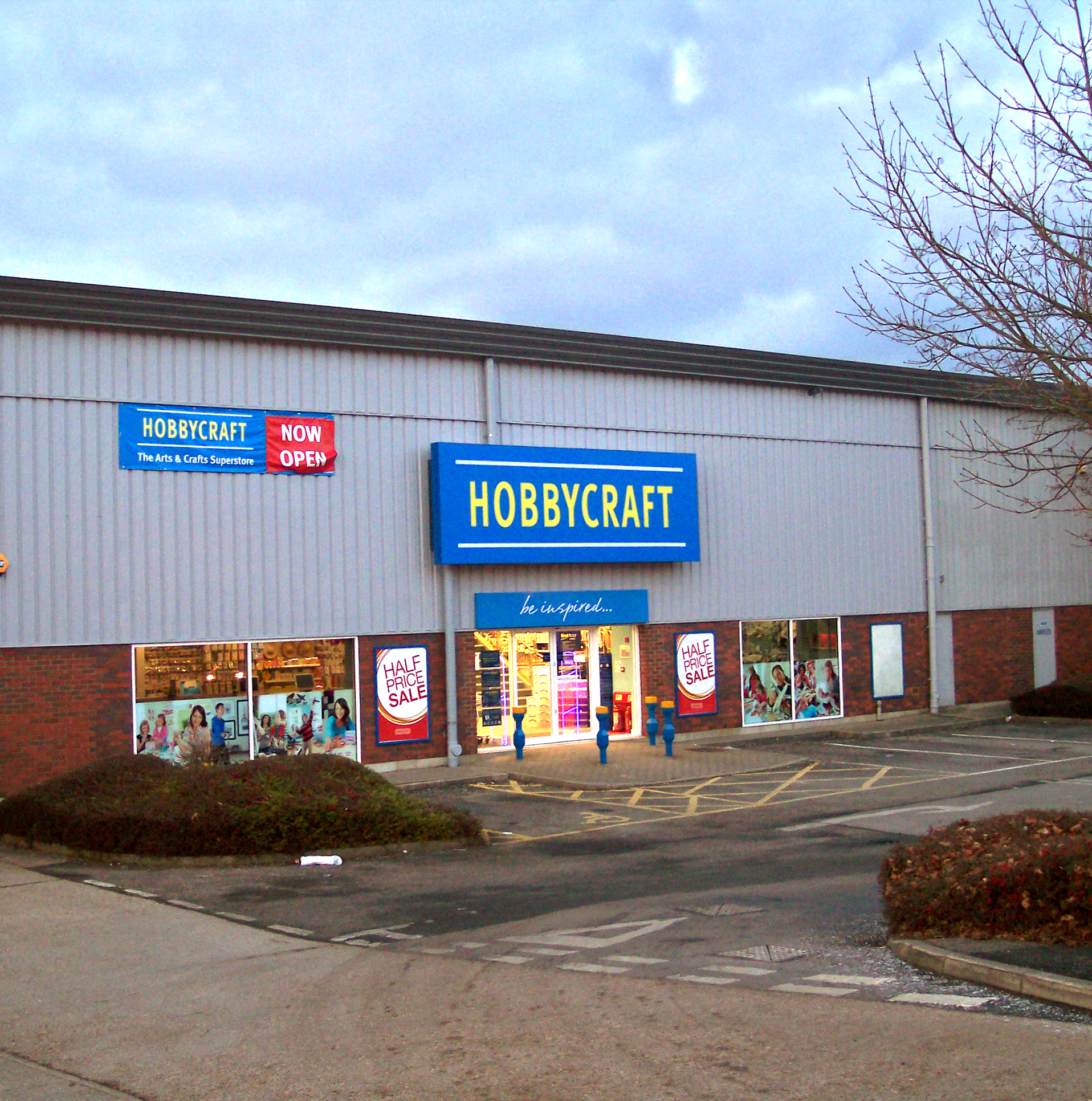 Hobbycraft Store, Tunbridge Wells